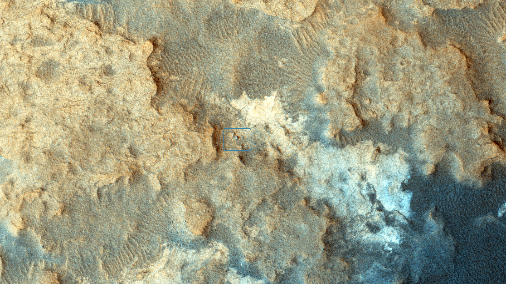 02.04.2015 Curiosity Rover at 'Pahrump Hills' NASA's Curiosity Mars rover can be seen at the "Pahrump Hills" area of Gale Crater in this view from the High Resolution Imaging Science Experiment (HiRISE) camera on NASA's Mars Reconnaissance Orbiter. Pahrump Hills is an outcrop at the base of Mount Sharp. The region contains sedimentary rocks that scientists believe formed in the presence of water. The location of the rover, with its shadow extending toward the upper right, is indicated with an inscribed rectangle. Figure A is an unannotated version of the image. North is toward the top. The view covers an area about 360 yards (330 meters) across. HiRISE made the observation on Dec. 13, 2014. At that time, Curiosity was near a feature called "Whale Rock." A map showing the rover's path for the weeks leading up to that date is at . The inset map at labels the location of Whale Rock and other features in the Pahrump Hills area. The bright features in the landscape are sedimentary rock and the dark areas are sand. The HiRISE team plans to periodically image Curiosity, as well as NASA's other active Mars rover, Opportunity, as the vehicles continue to explore Mars. This image is an excerpt from HiRISE observation ESP_039280_1755. Other image products from this observation are available at . The University of Arizona, Tucson, operates HiRISE, which was built by Ball Aerospace & Technologies Corp., Boulder, Colorado. NASA's Jet Propulsion Laboratory, a division of the California Institute of Technology in Pasadena, manages the Mars Reconnaissance Orbiter Project and Mars Science Laboratory Project for NASA's Science Mission Directorate, Washington.